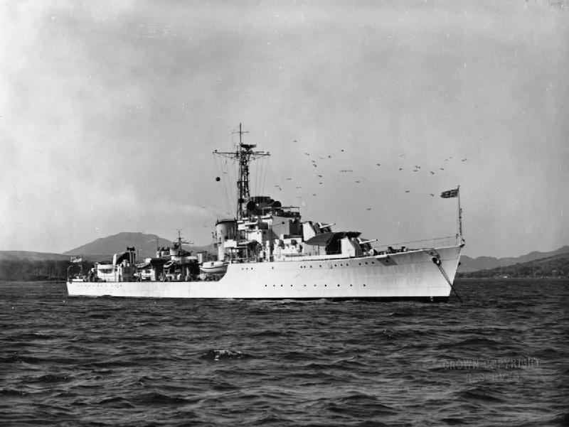 Photograph of British C class destroyer HMS Chivalrous, on the River Clyde on completion.